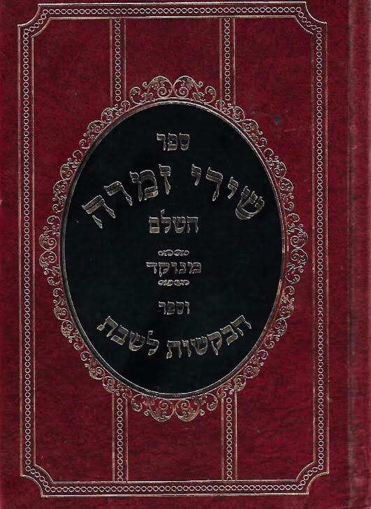 ספר שירת הבקשות של יהדות ארם צובא